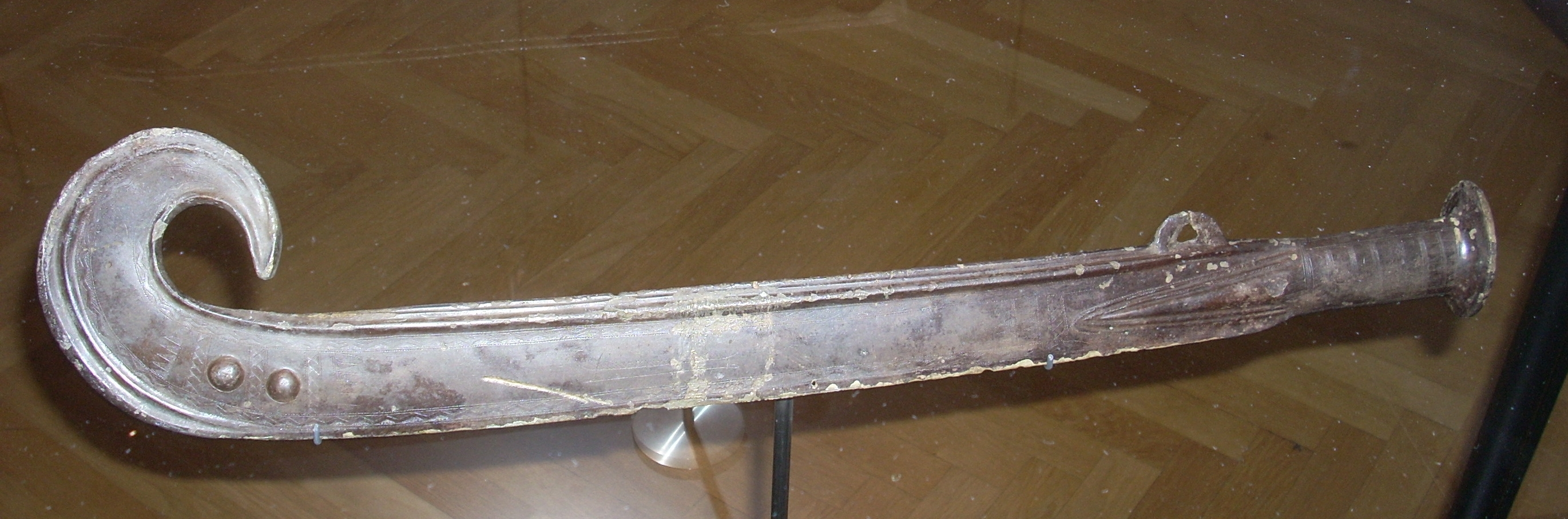 Curved Bronze Age sword from Rørby, Zealand, in Denmark. Now in the Nationalmuseet (National Museum) in Copenhagen, Denmark.